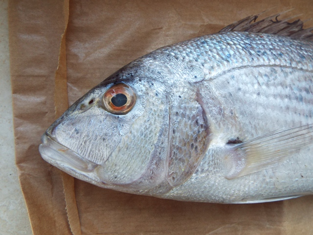 Dentex dentex collected in Northern Tyrrhenian sea (Italy).